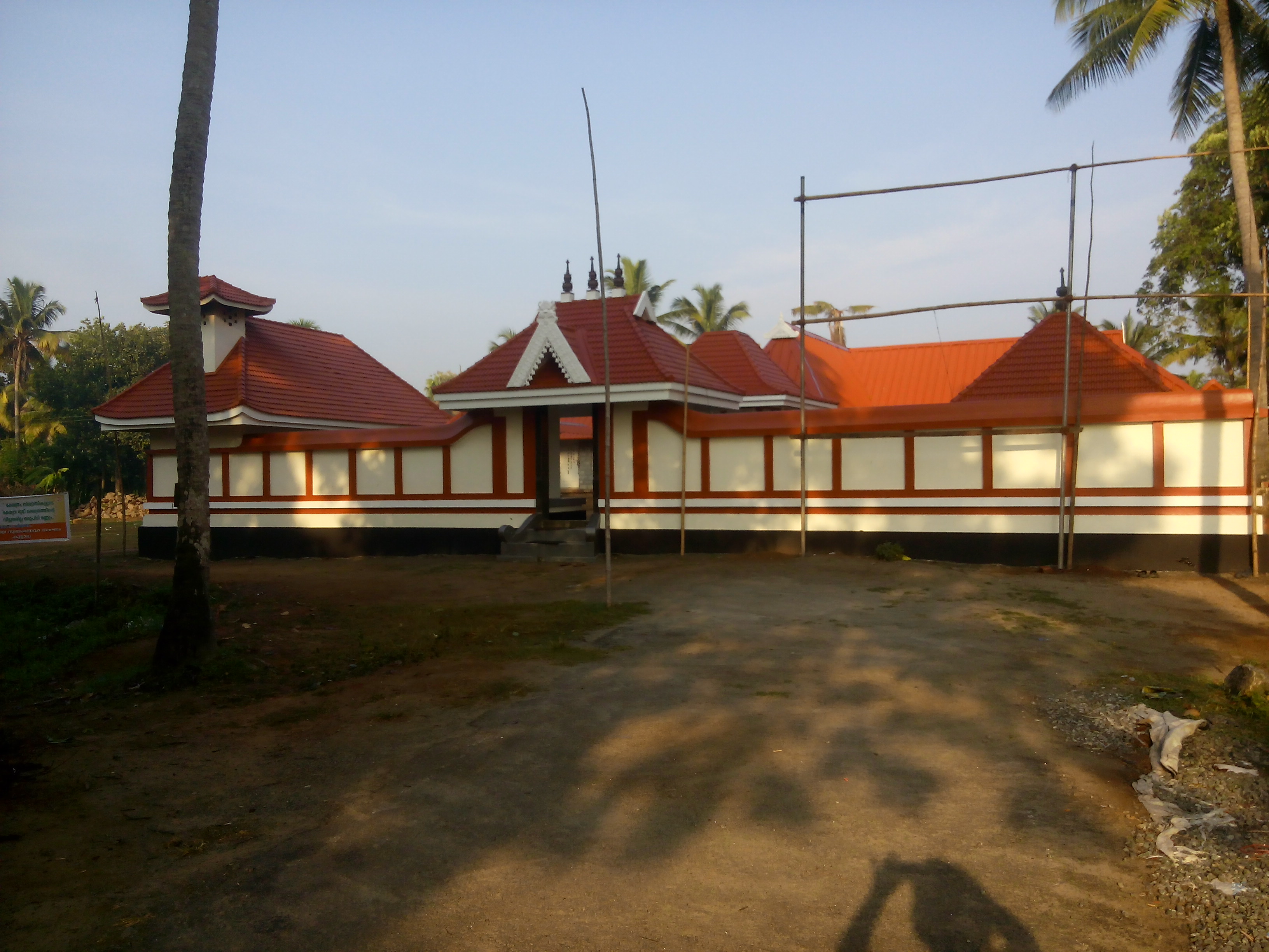 This image is of Sree Kootala Bhagavathy Kshetram, Kunnukara